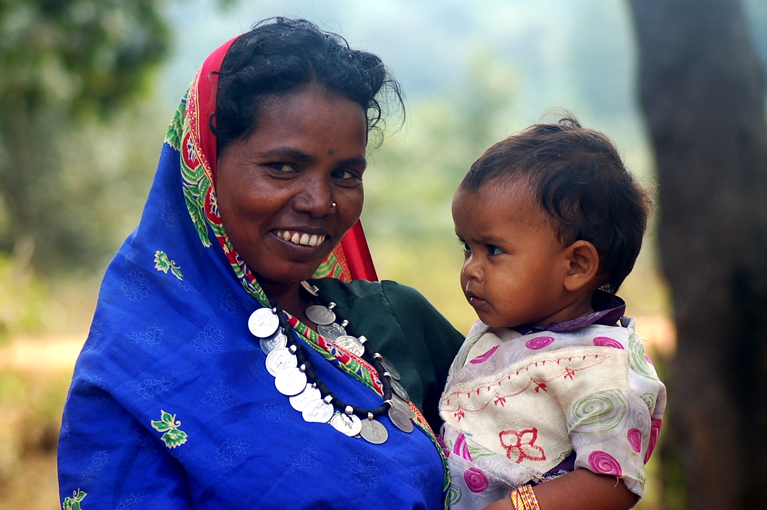 Adivasi woman and child, Chhattisgarh, India.